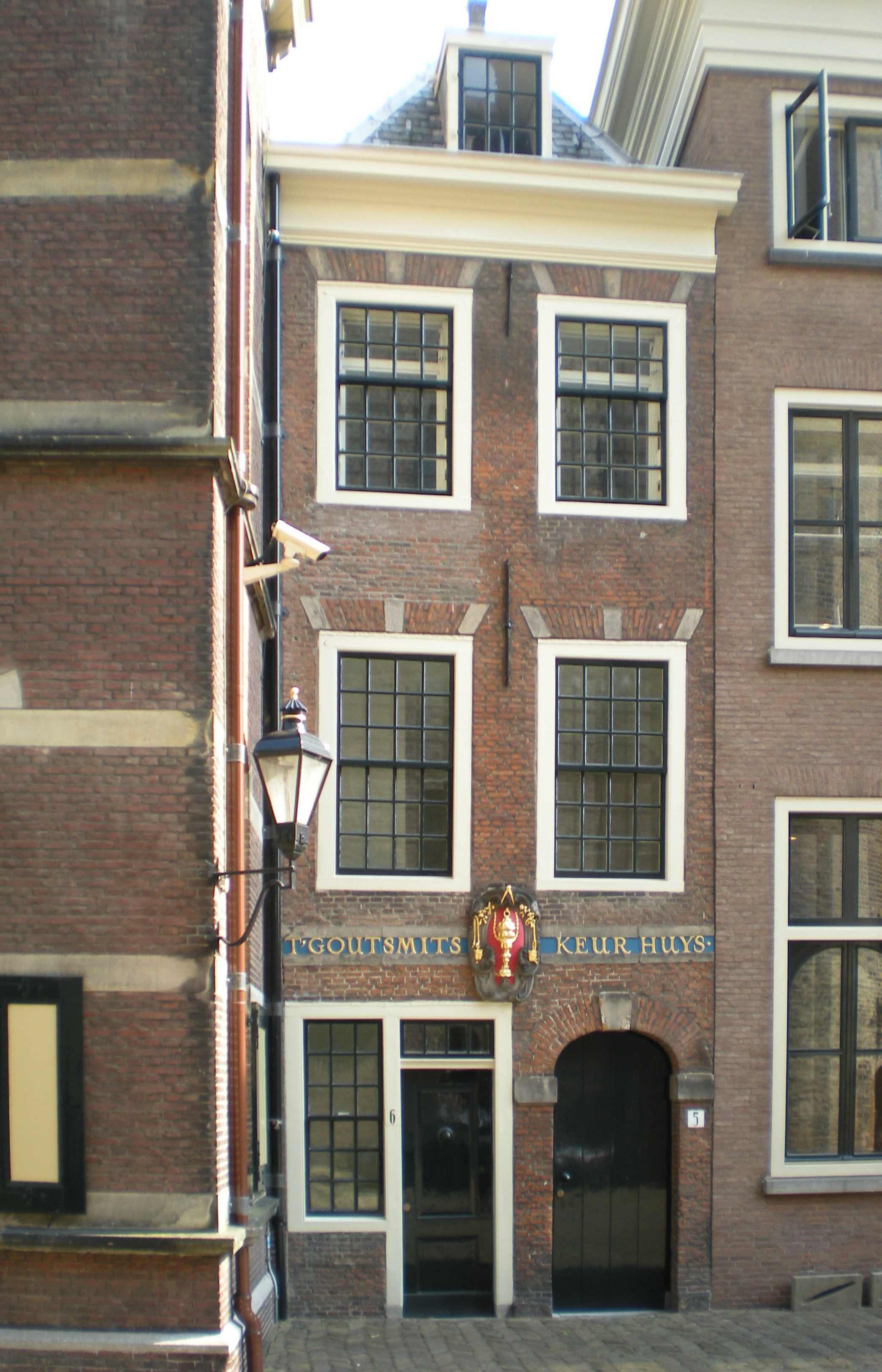 ' t Goutsmits Keurhuys was the place where inspectingmarks in golden and silver objects were beaten.